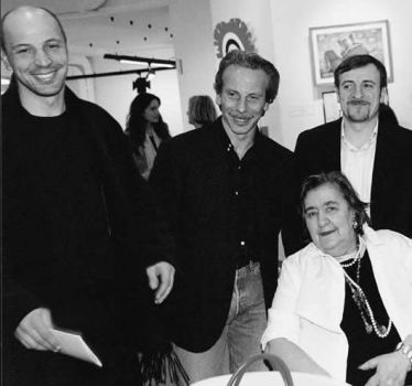 The italian poetess Alda Merini with the popular comedians Aldo, Giovanni & Giacomo